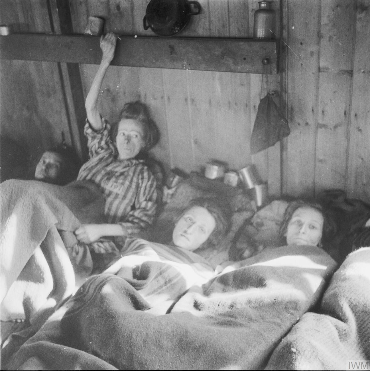 The Liberation of Bergen-belsen Concentration Camp, April 1945 Three women who are suffering from typhus lie closely packed together in one of the huts.